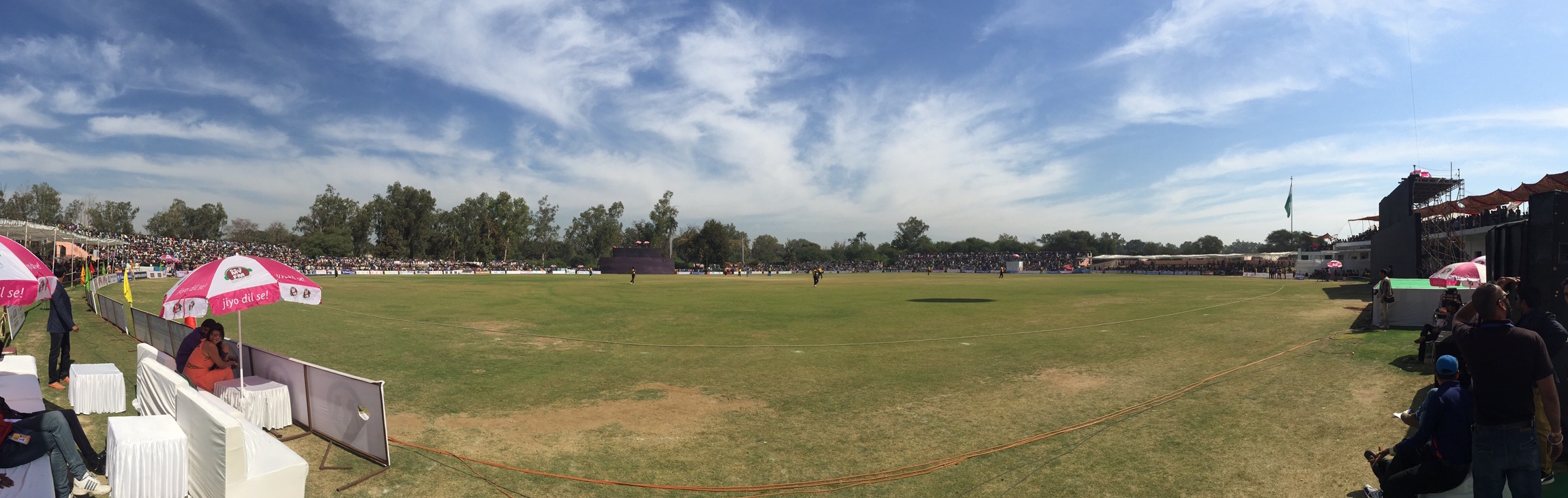 Panaromic Image of International Stadium, Kota